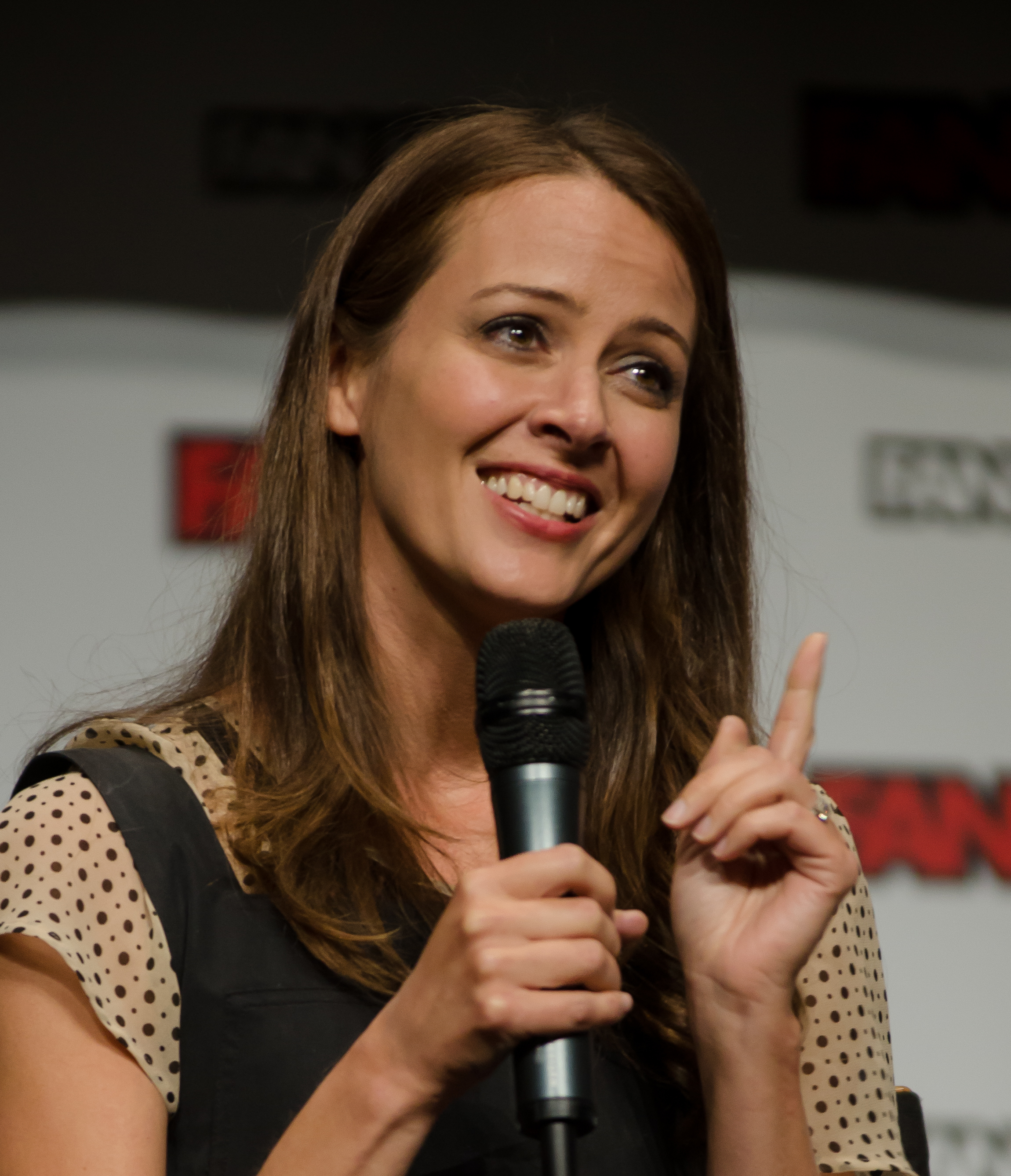 Amy Acker Q&A panel at 2015 Fan Expo Canada in Toronto in 2015.